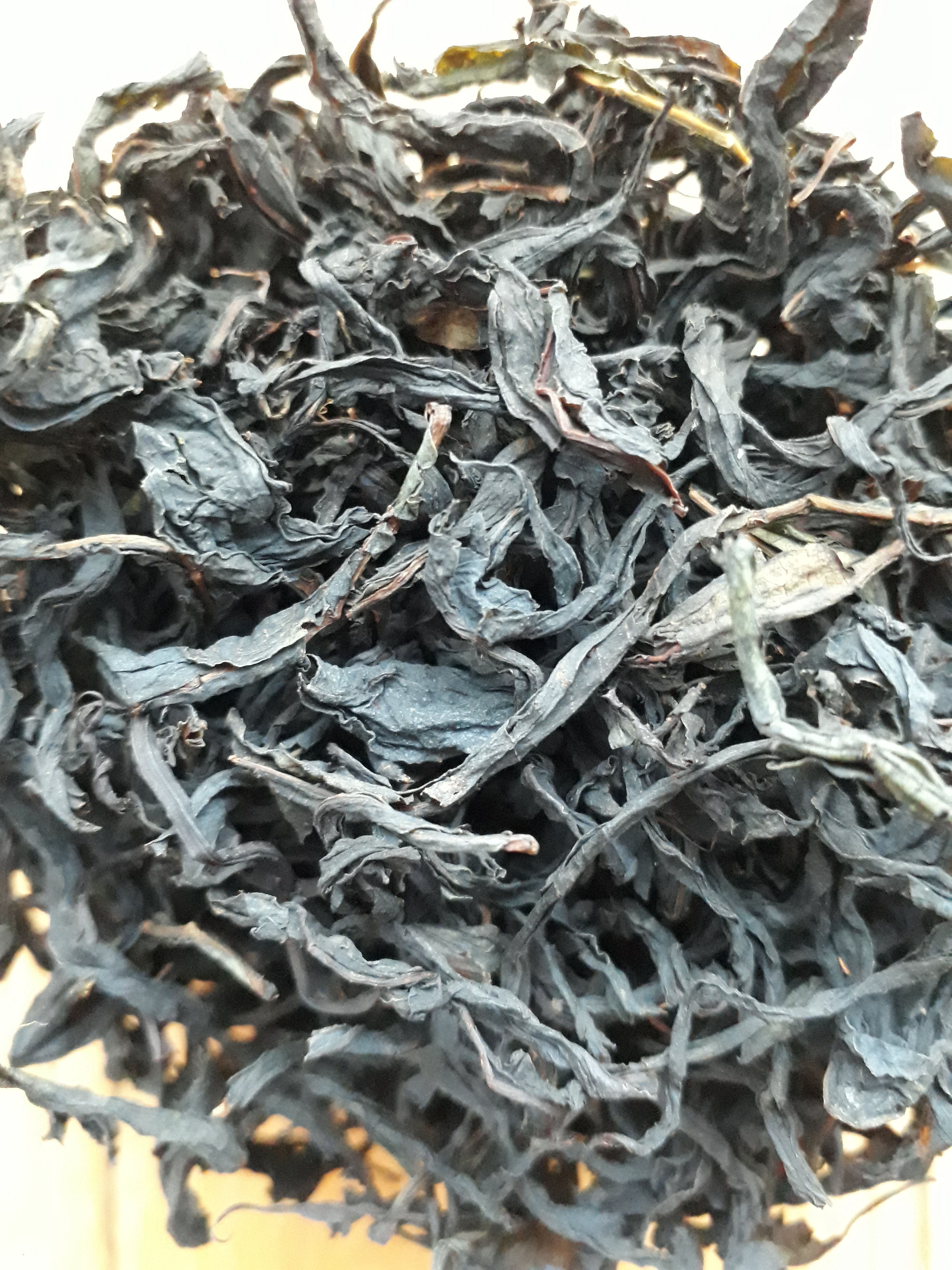 Chamerion angustifolium (inflorescense) fermented tea